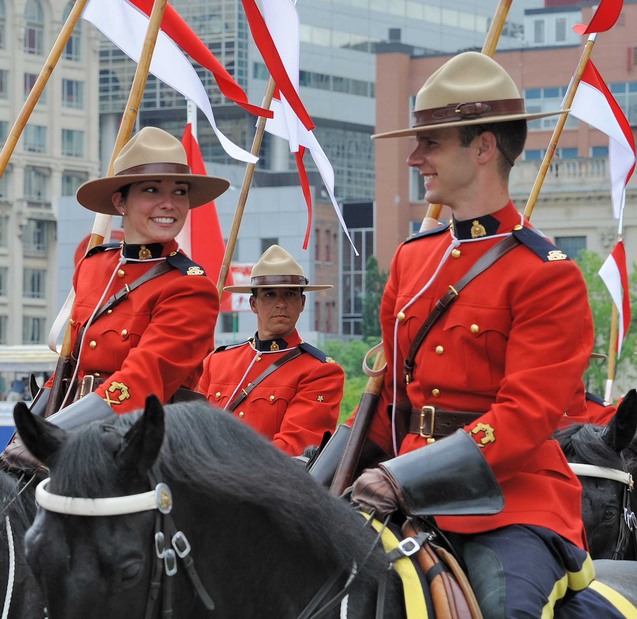 Royal Canadian Mounted Police - Rider's Uniforms